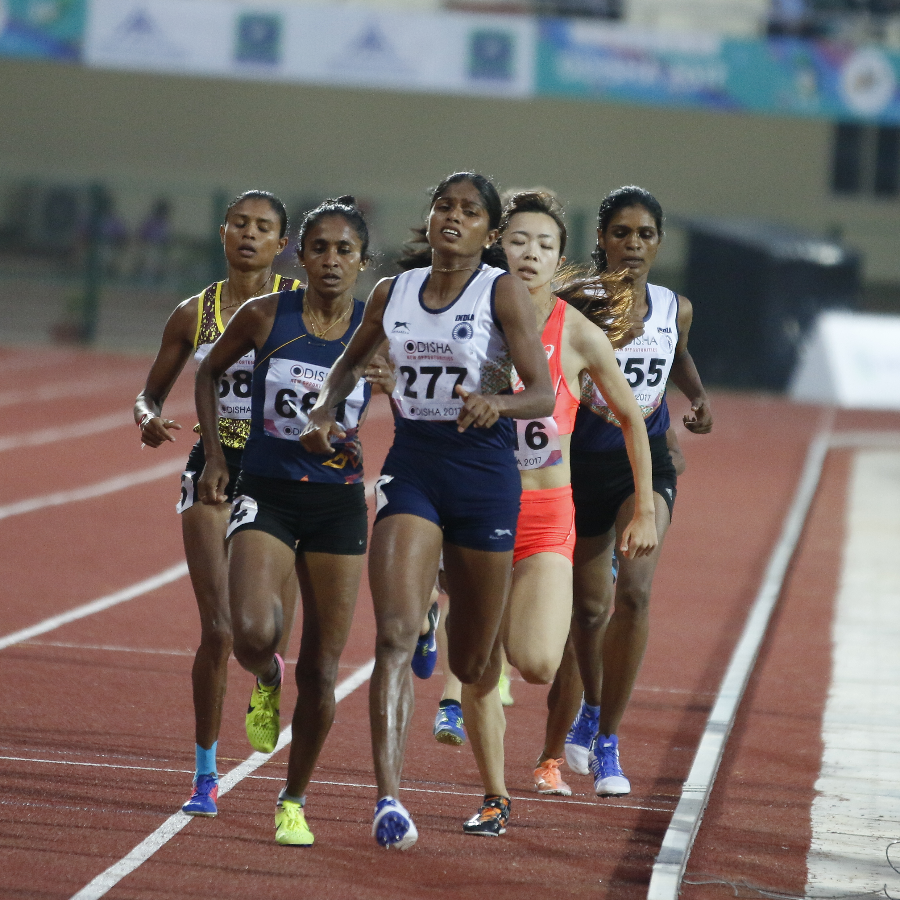 2017 Asian Athletics Championships at the Kalinga Stadium in Bhubaneswar, India